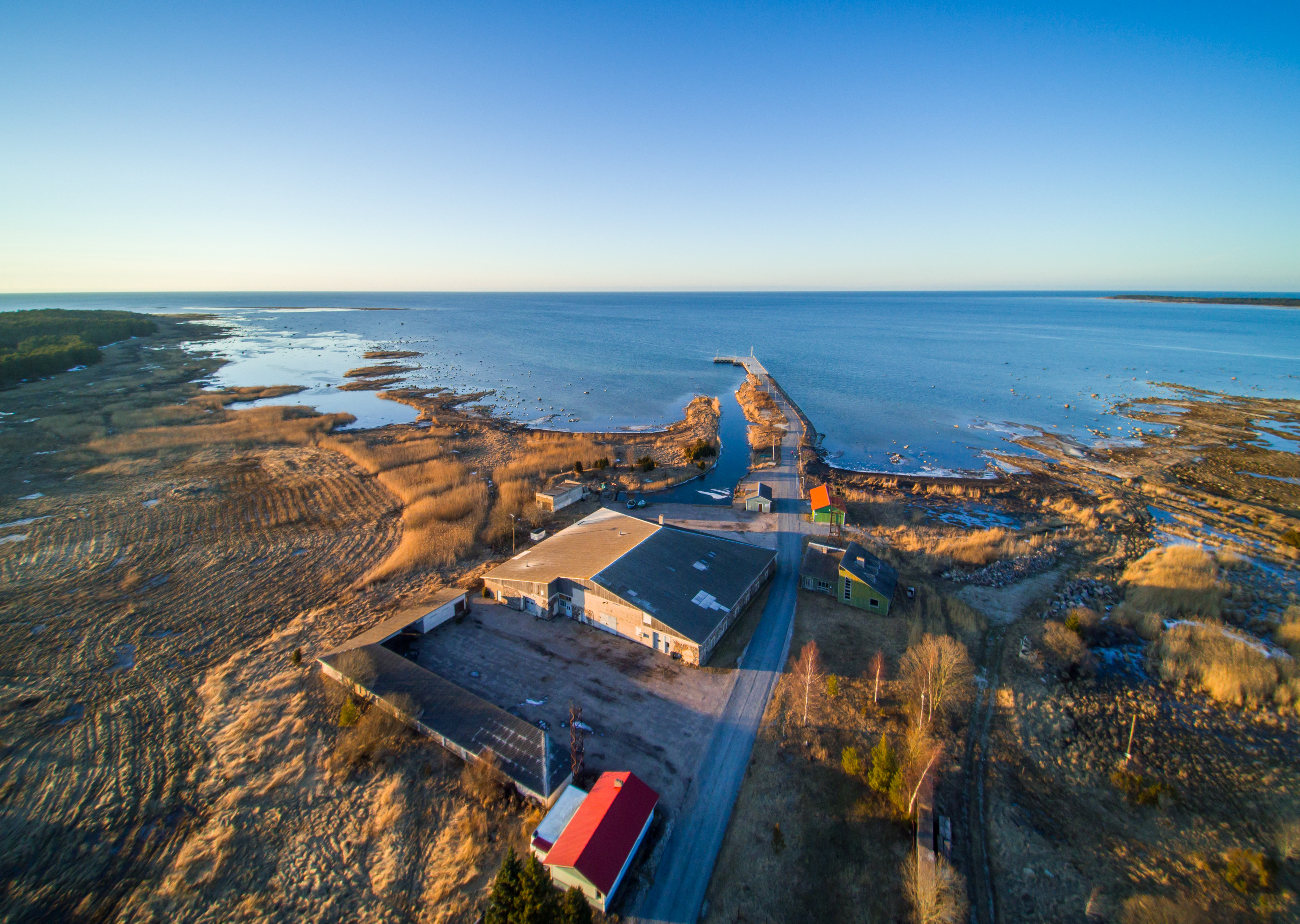 Kõrgessaare harbour